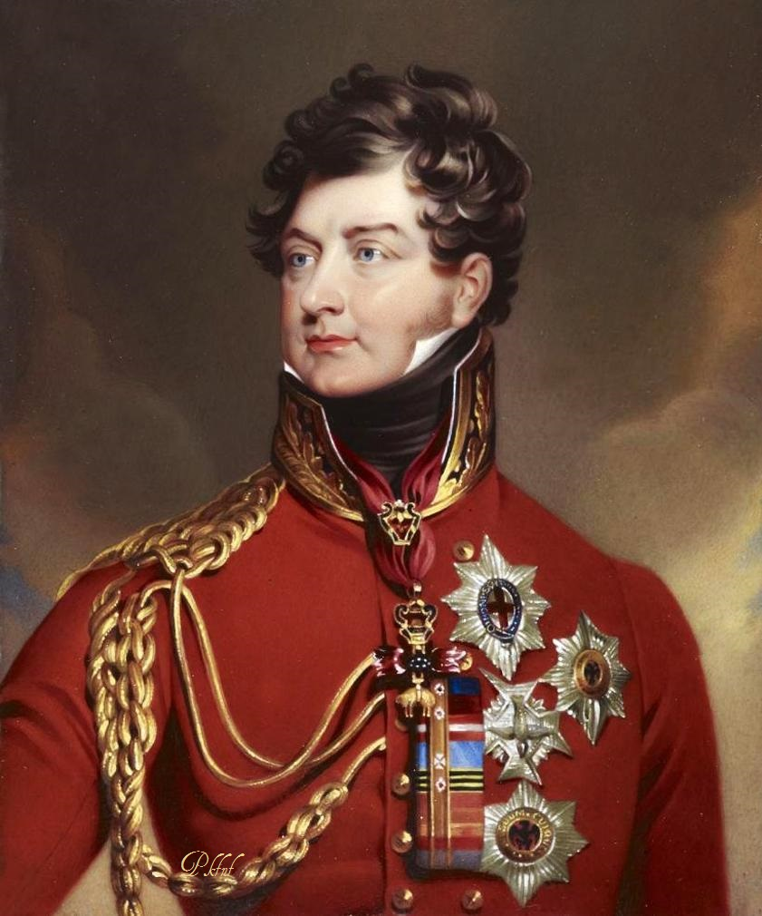 King George IV when Prince Regent (1762-1830), facing left in the red uniform of a Field-Marshal, wearing the badge of the Order of the Golden Fleece, the breast stars of the Order of the Garter, the Saint Esprit, the Black Eagle and St. Andrew and miniature ribbons signed with monogram on the obverse 'HB.' (mid-left) and signed, dated and inscribed in full on the counter-enamel 'His R H the Prince Regent London Augst. 1816 Painted by Henry Bone R.A. Enamel painter in Ordinary to His Majesty & Enl painter to the Prince Regent after Sir Thos Lawrence R A' enamel on copper rectangular with rounded corners, 76 x 60 mm.